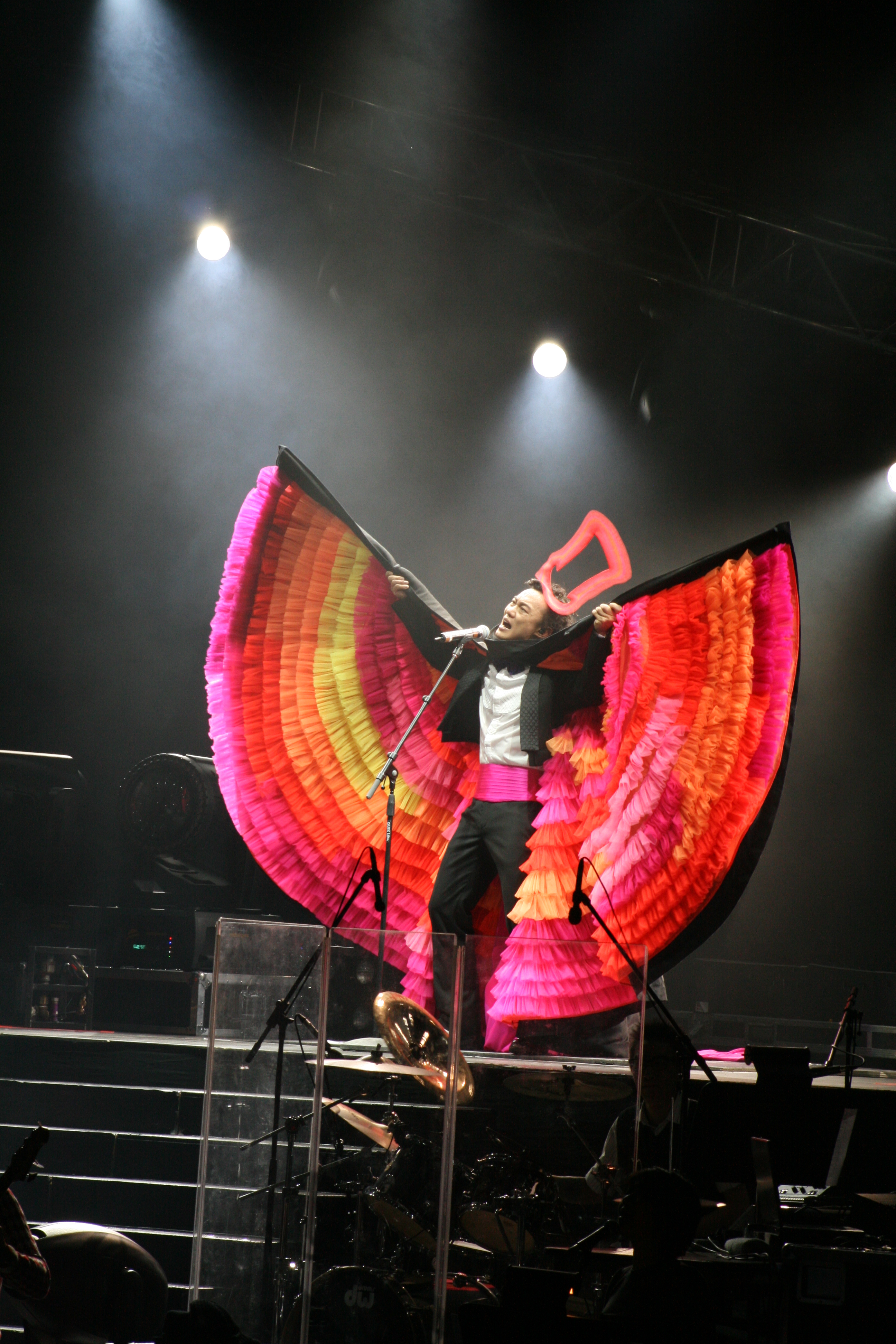 Eason Chan performance